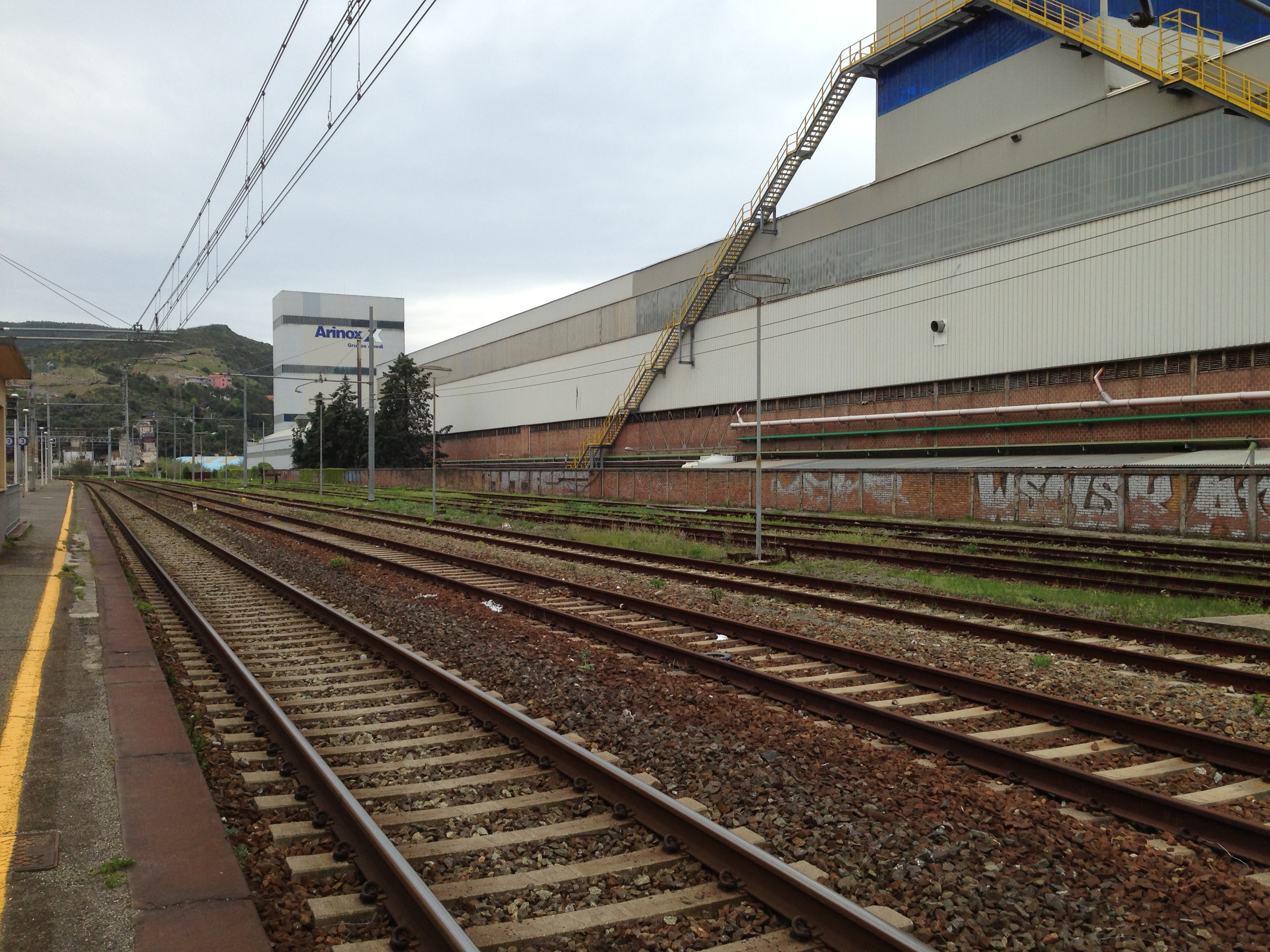 Riva Trigoso Railway station Platforms 3